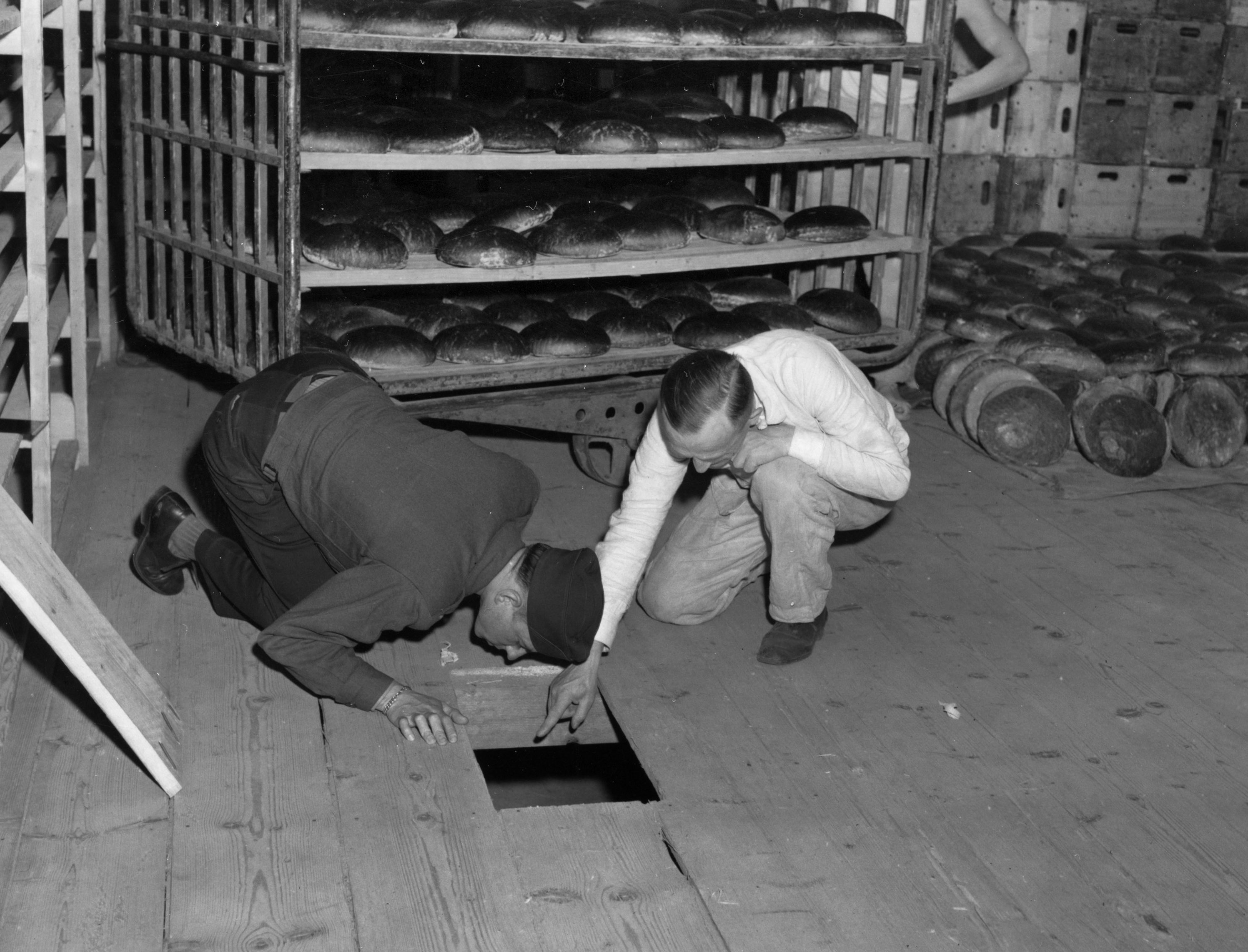 U.S. Lt. Robert R, Rogers, left, and Erich Pinkau, of the German criminal police, inspect the bakery and the hiding place of Leipke Distel, a member of Jewish revenge group Nakam, who had tried to poison loaves of bread for SS prisoners